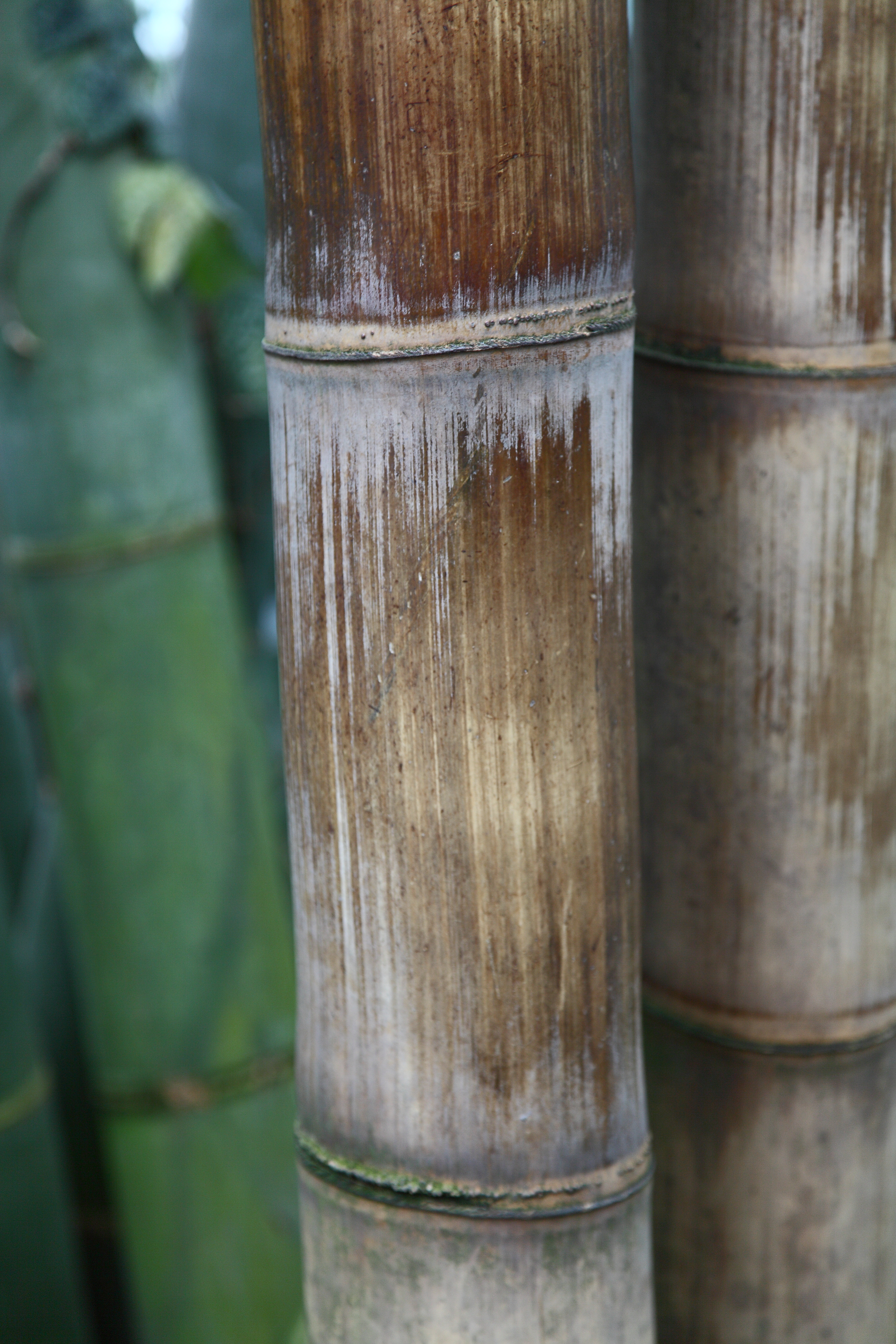 Dendrocalamus giganteus, Botanic Garden, Munich, Germany